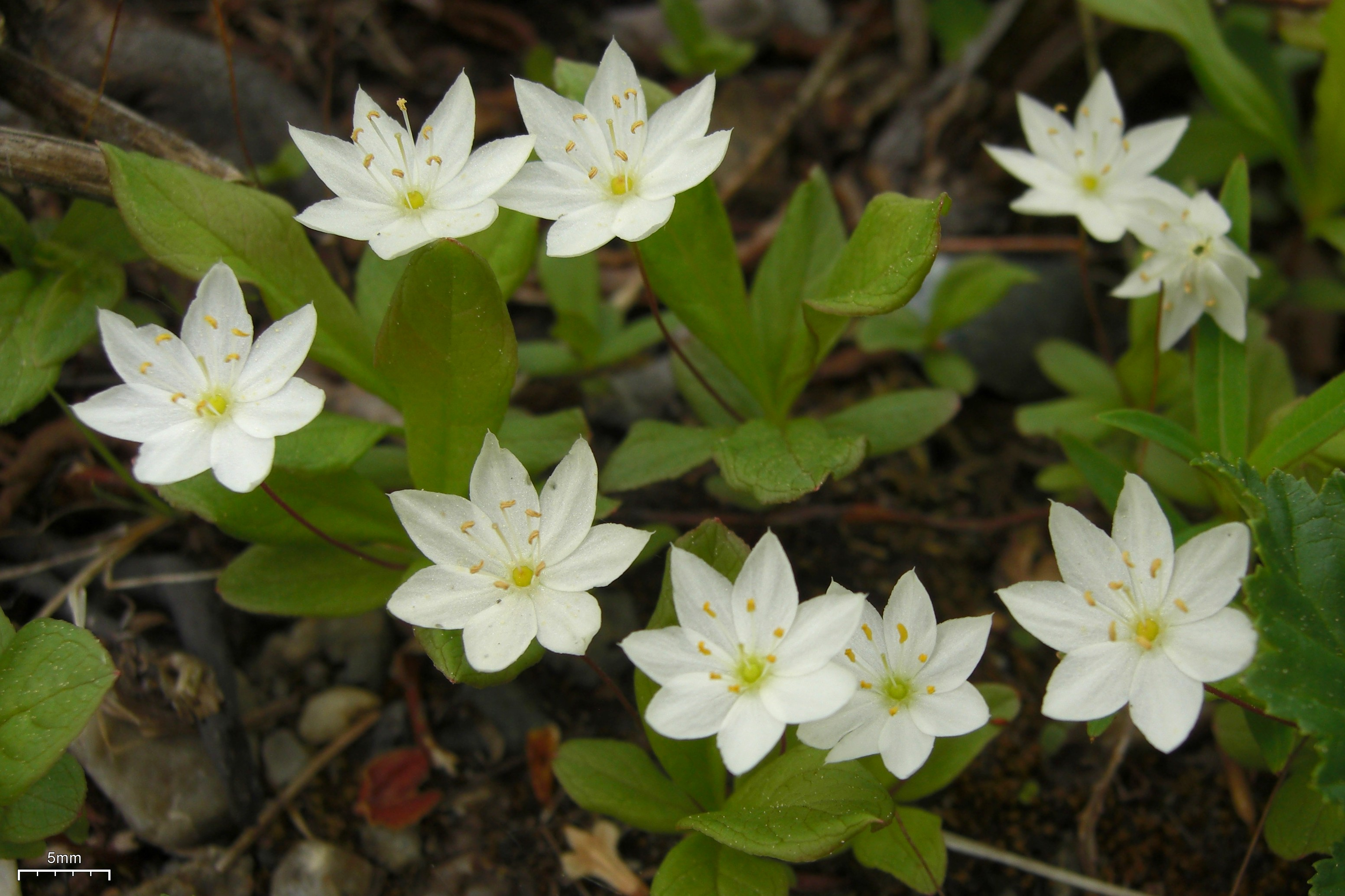 Trientalis arctica Fisc. 20090605.5 Wells Gray Provincial Park, BC